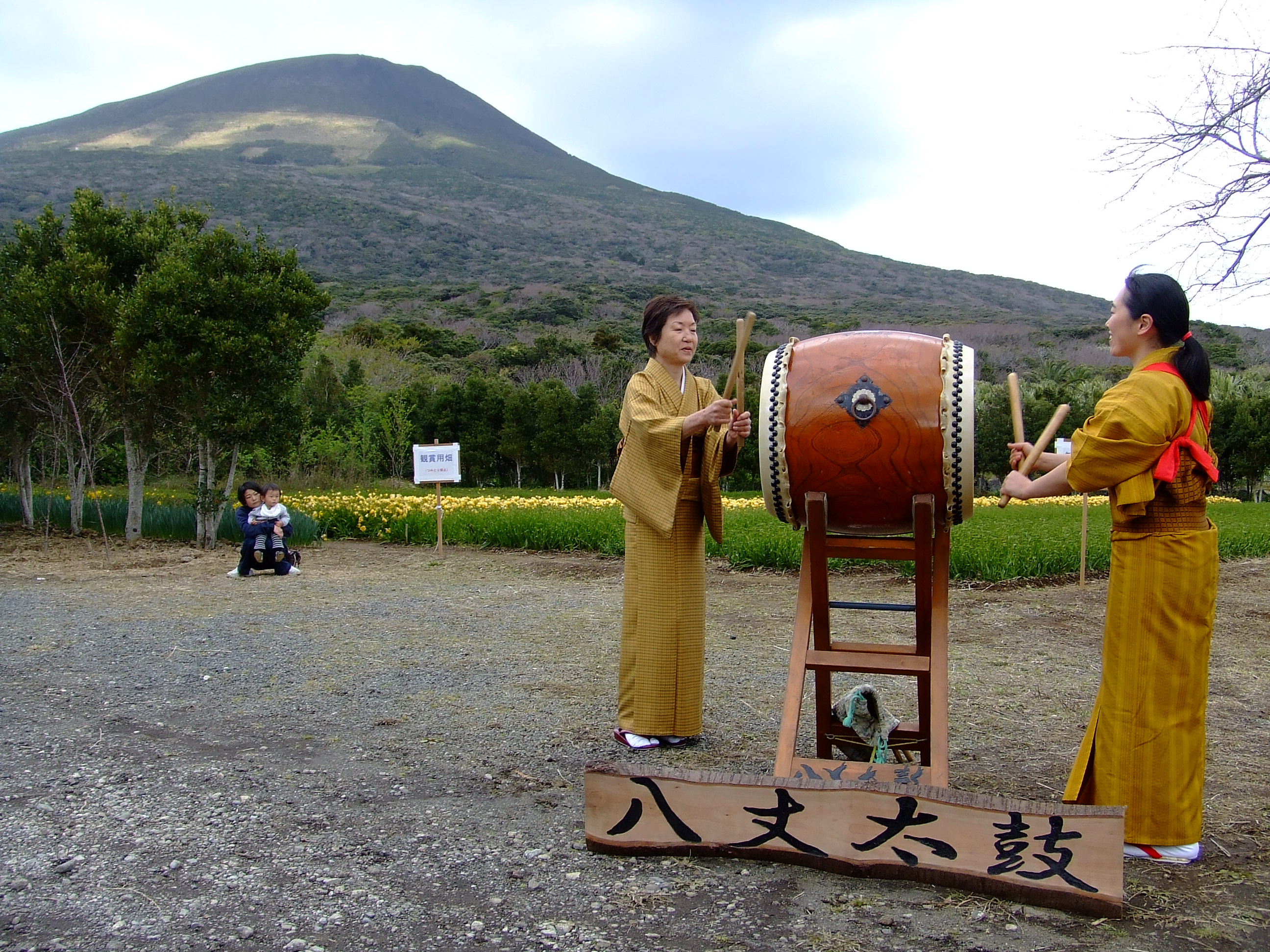 Two women wearing kimonos made from kihachijo fabric demonstrating traditional Hachijojima taiko drumming. Hachijo-jima in Japan. I took the photo with a digital camera on 21st March 2007.